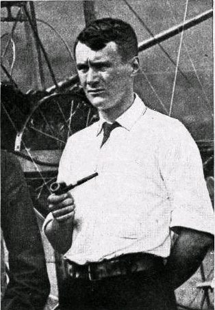 Original caption reads: Lieutenant Thomas Etholen Selfridge, Army Signal Corps, was a Californian and graduated from West Point in 1903. This image appeared in Harper's Weekly September 26, en:1908.